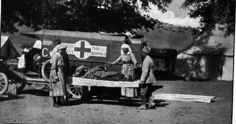 Scottish Women's Hospital - Ostrovo - America Unit arrives with stretcher cases